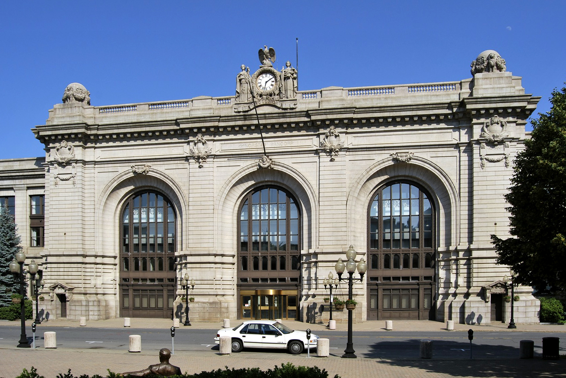 The former Union Station on Broadway in Albany, New York, United States